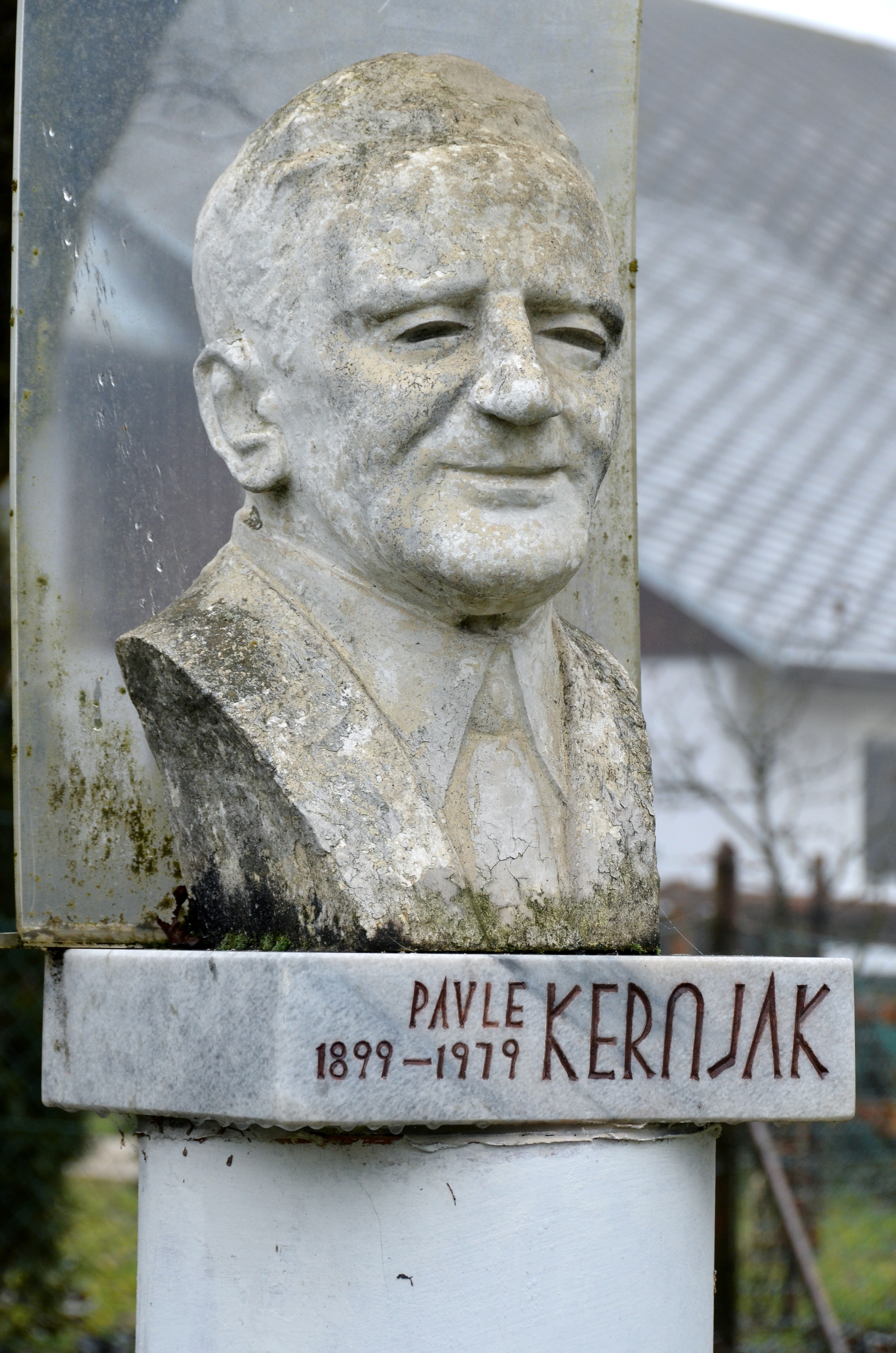 Bust of Pavle Kernjak, created by the Slovenian sculptor France Gorše at the cultural park at Suetschach, market town Feistritz im Rosental, district Klagenfurt Land, Carinthia / Austria / EU